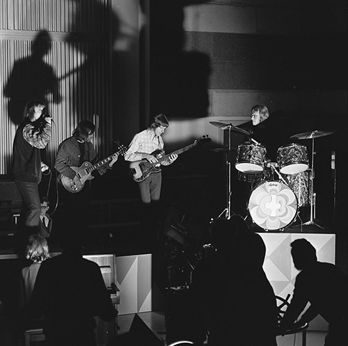 Cuby & the Blizzards in the Dutch TV programme Fenklup, 9 February 1968